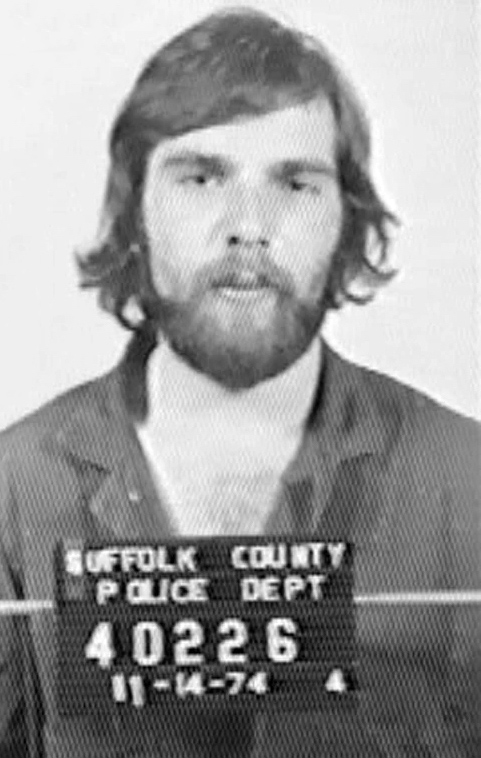 Mugshot taken of Ronald DeFeo, taken following his arrest.